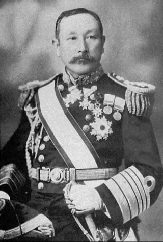 Sotokichi Uryu